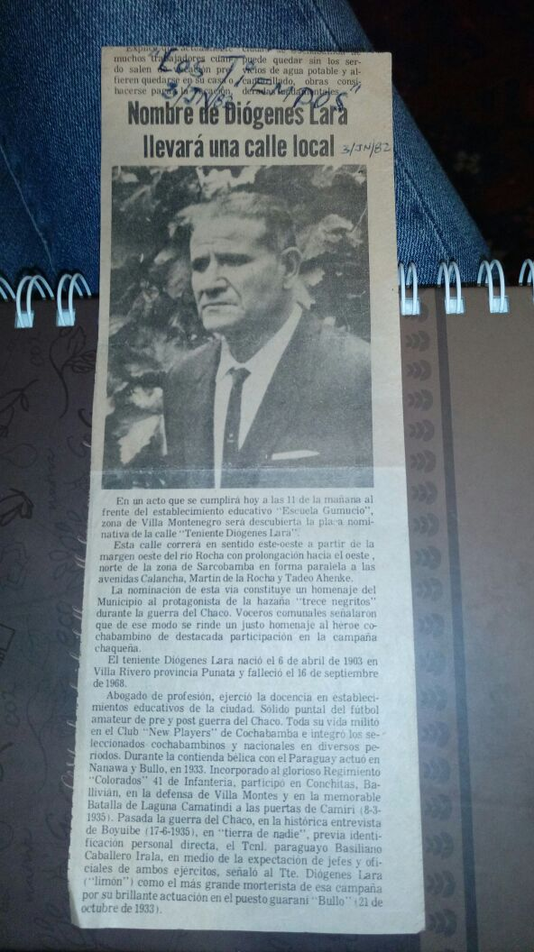 A Spanish-written article focusing on Diógenes "Limón" Lara during his career as a sports player.